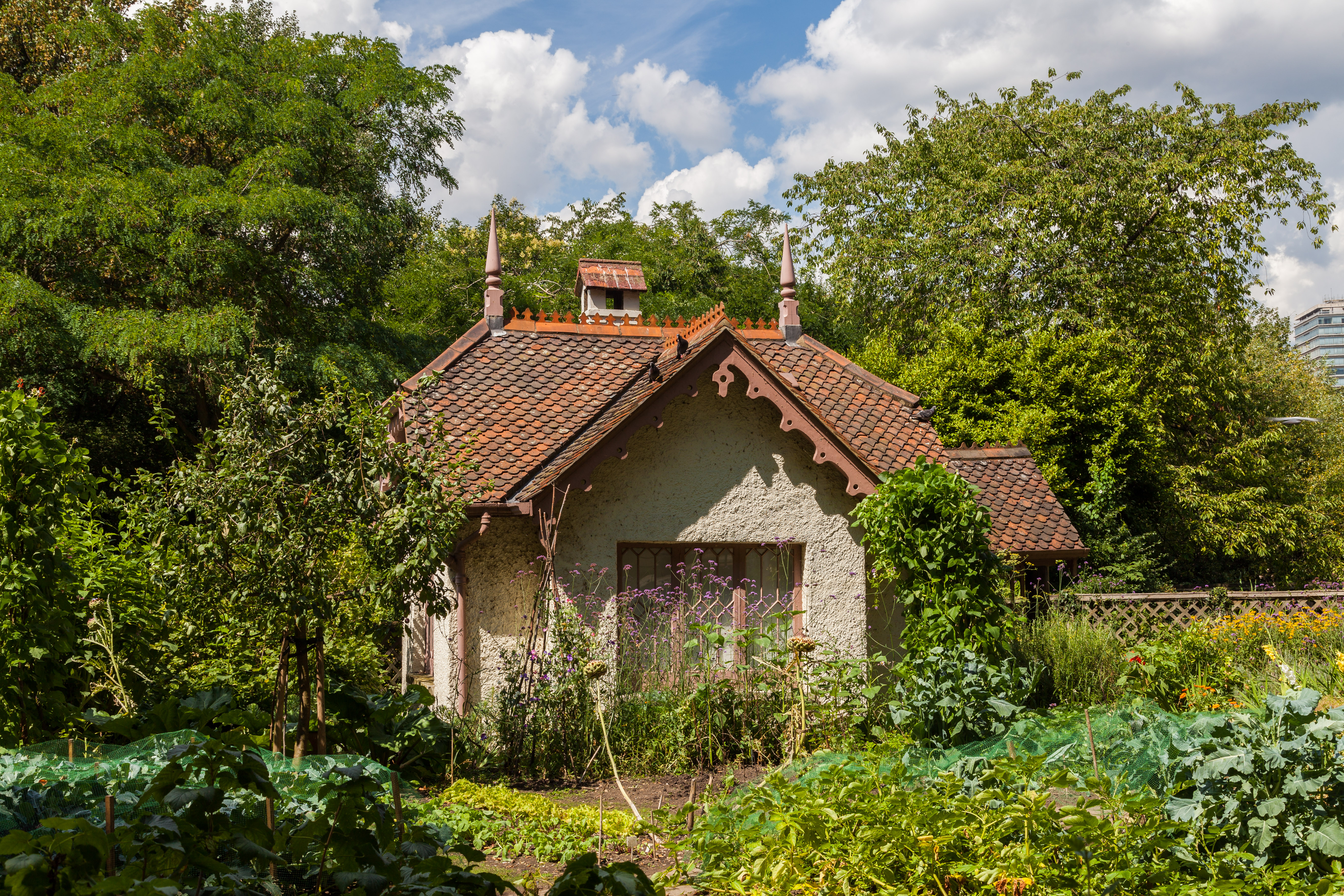 Duck Island Cottage, London, England